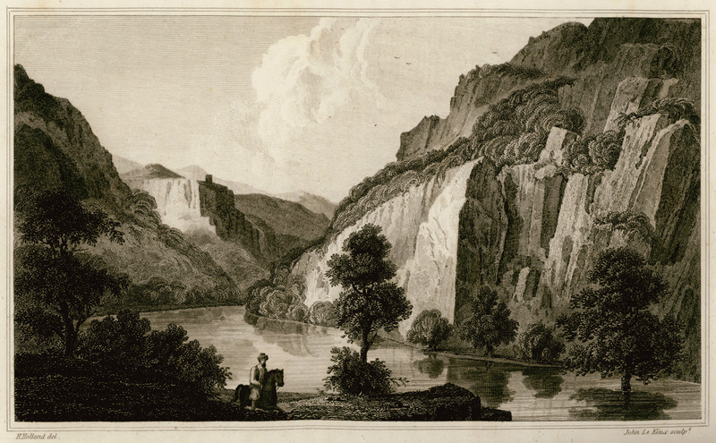 Tempe - Holland Sir Henry - 1815